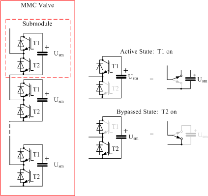 Electrical arrangement of a typical VSC valve for a Modular Multi-Level Converter, showing the output states which can be obtained.